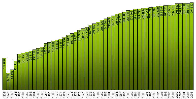 Demography of Białystok